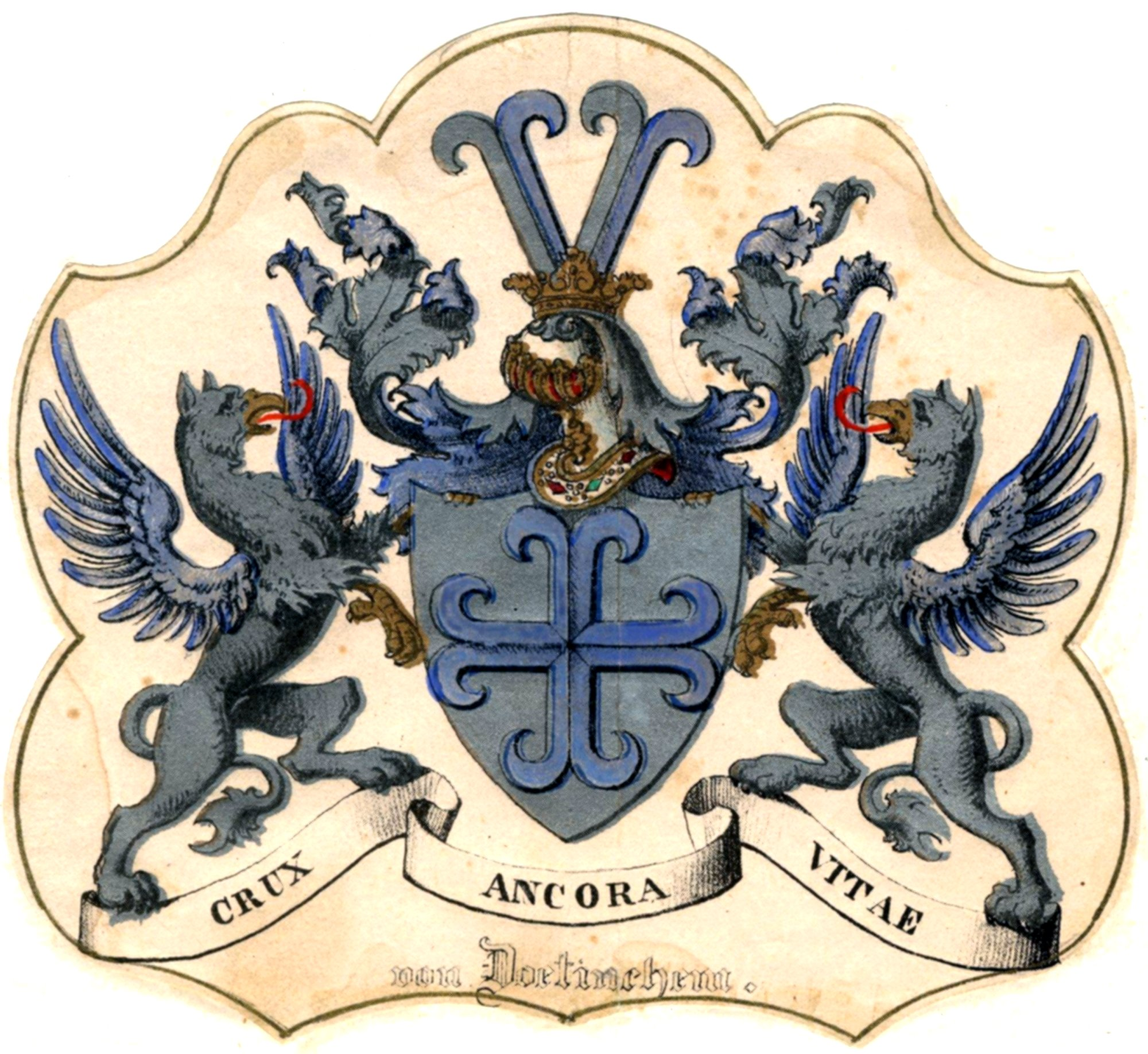 family herb von Doetinchem